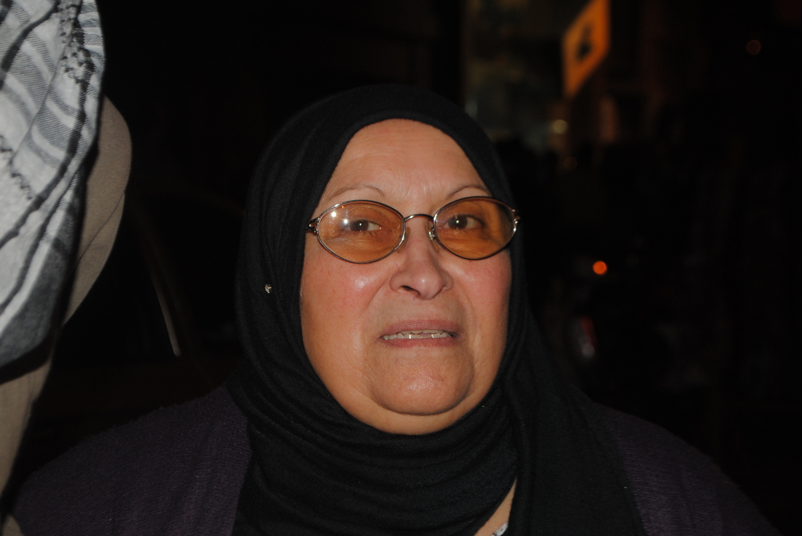 Khaled's Said's mother